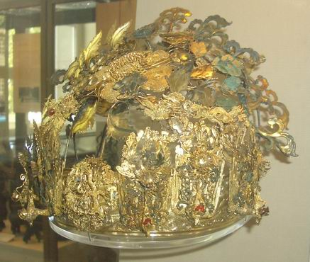 A golden crown of a Chinese empress, Ming dynasty, currently at display in the British Museum, London, United Kingdom.